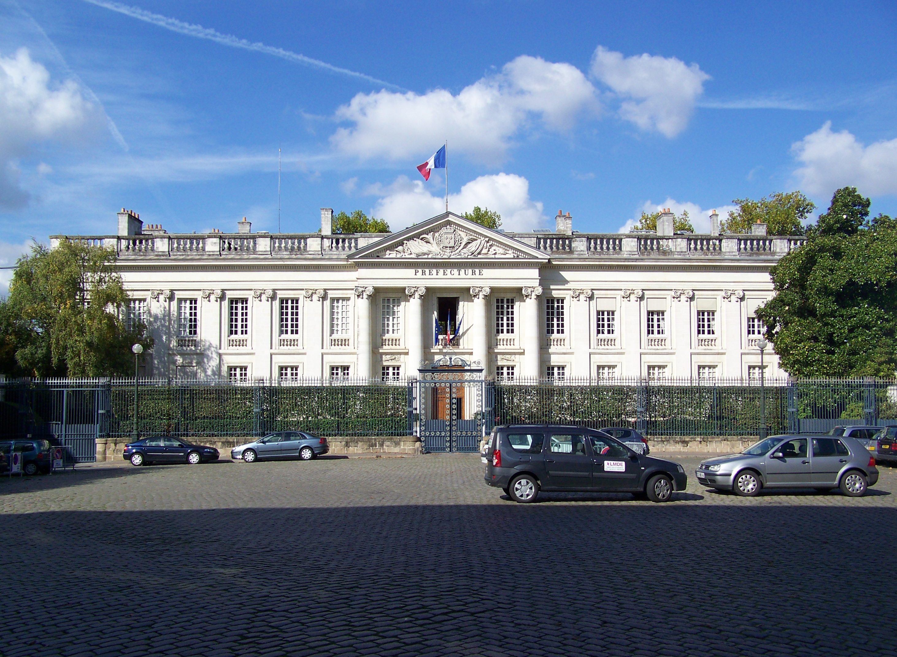 Nantes prefecture.